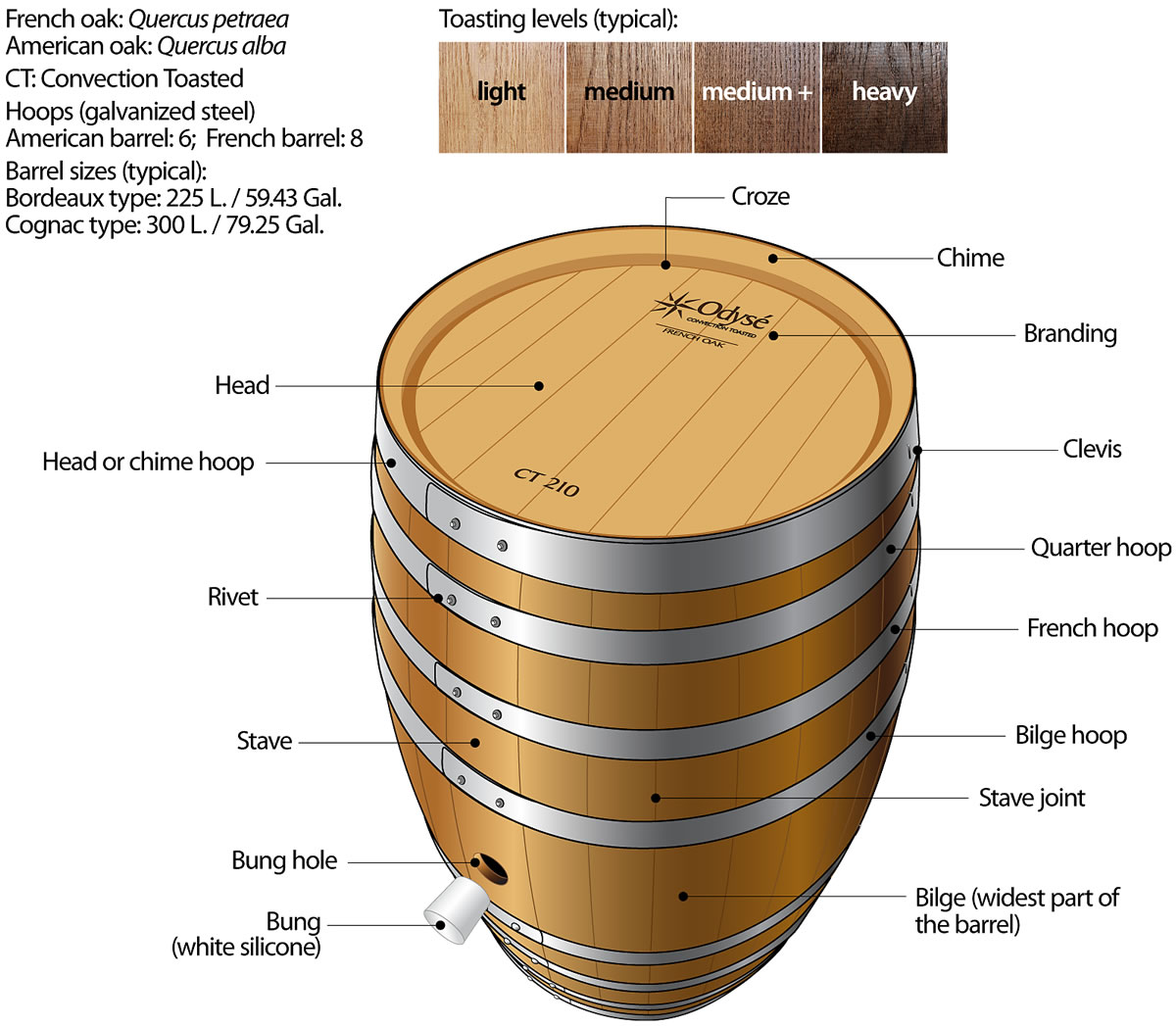 Denominations of the different parts that make up a oak wine barrel, such as staves and hoops. Images of the 4 most common toasting levels: light, medium, medium plus and heavy